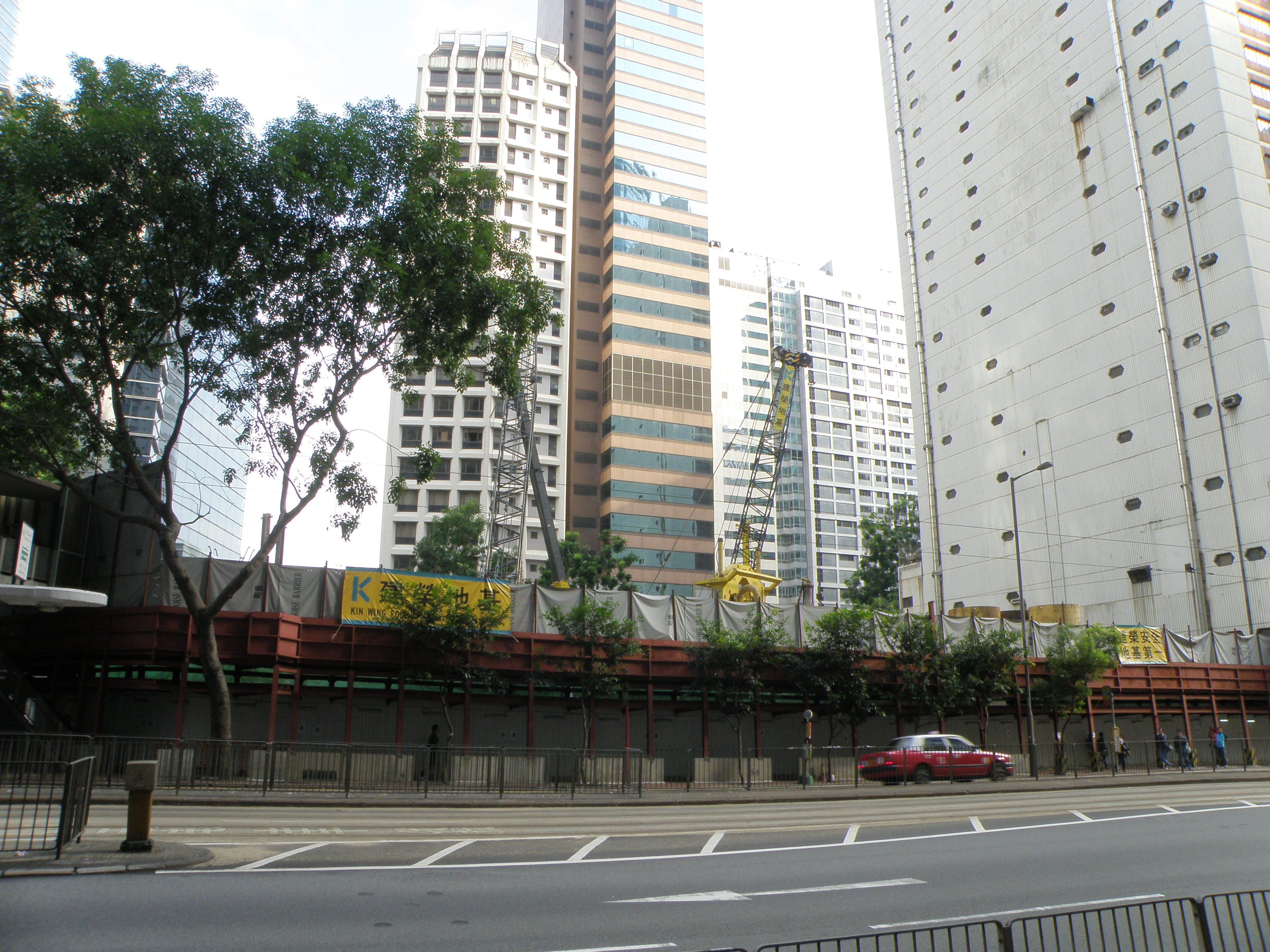 Former Asian House in Wan Chai, Hong Kong.